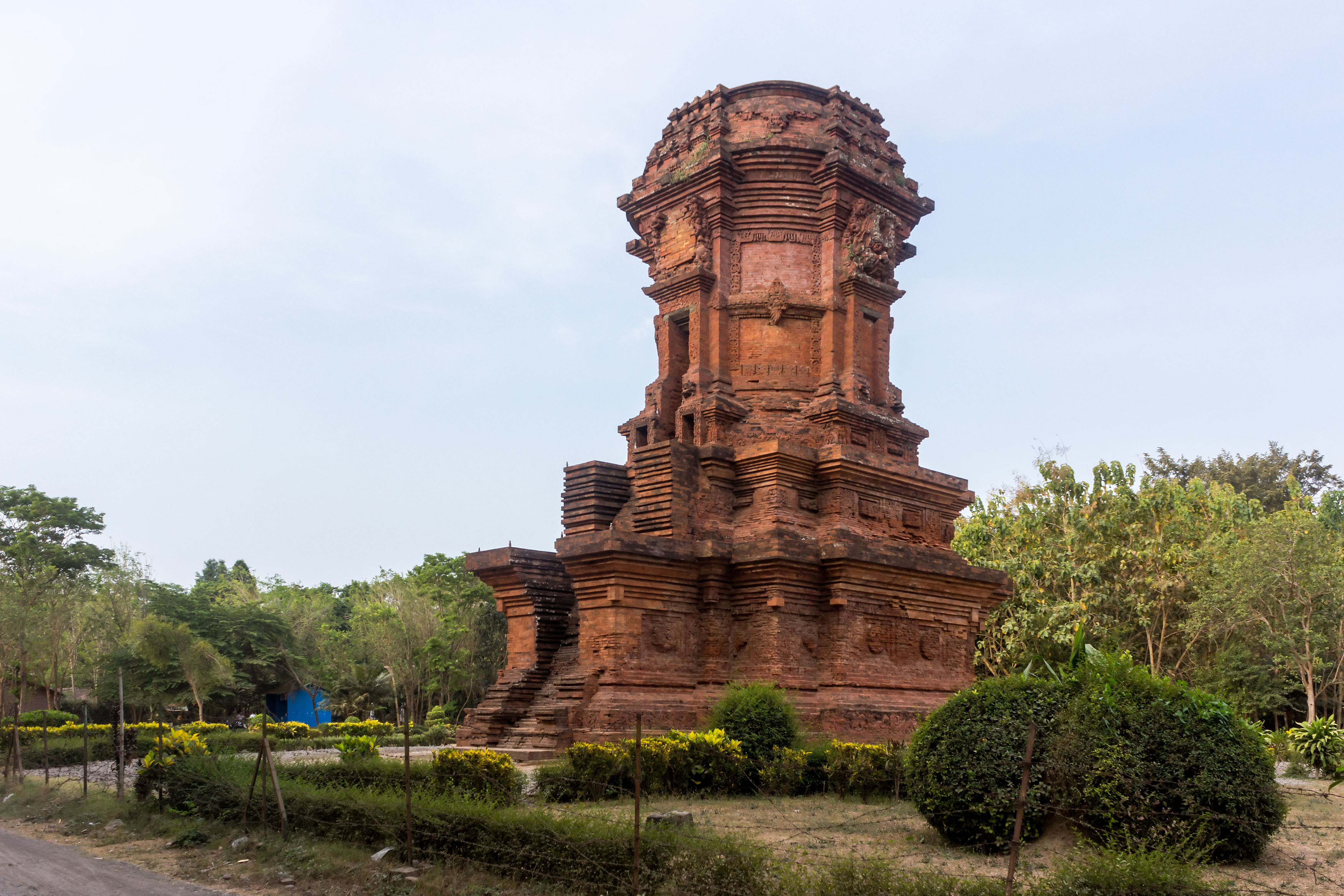 Candi Jabung, Paiton, Probolinggo, East Java, 2017-09-14